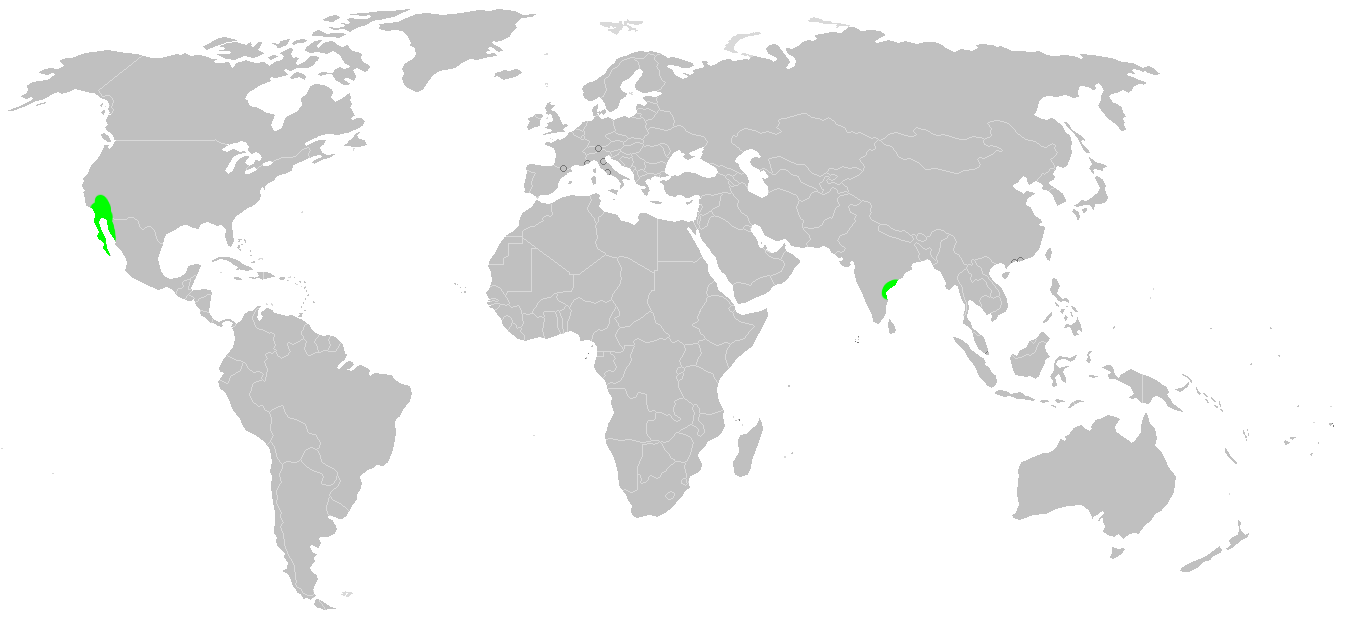 Known world distribution of Homalonychidae, after Crews, S. C. and M. C. Hedin. 2006 and Patel, B.H. & Reddy, T.S. (1991). A rare new species of Homalonychus Marx (Araneae: Homalonychidae) from coastal Andhra Pradesh, India. Rec. zool. Surv. India 89:205-207.